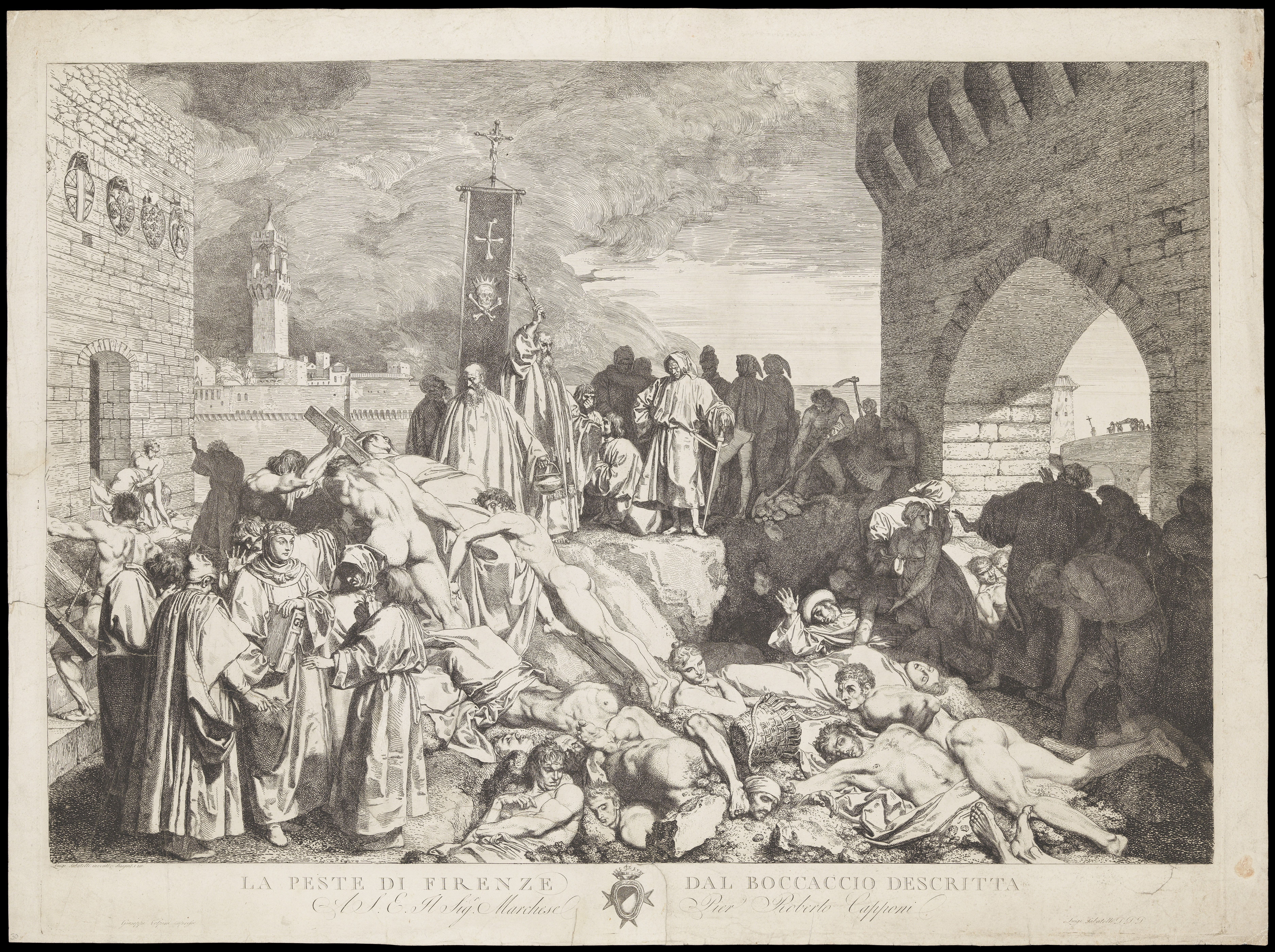 The plague of Florence in 1348, as described in Boccaccio's Decameron ('Il decameron'). Etching by L. Sabatelli after himself. Iconographic Collections Keywords: Black Death; Luigi Sabatelli; Pier Roberto Capponi; Plague; Giovanni Boccaccio